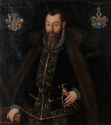 Portrait of Svante Sture, Swedish count executed for treason along with his sons in 1567